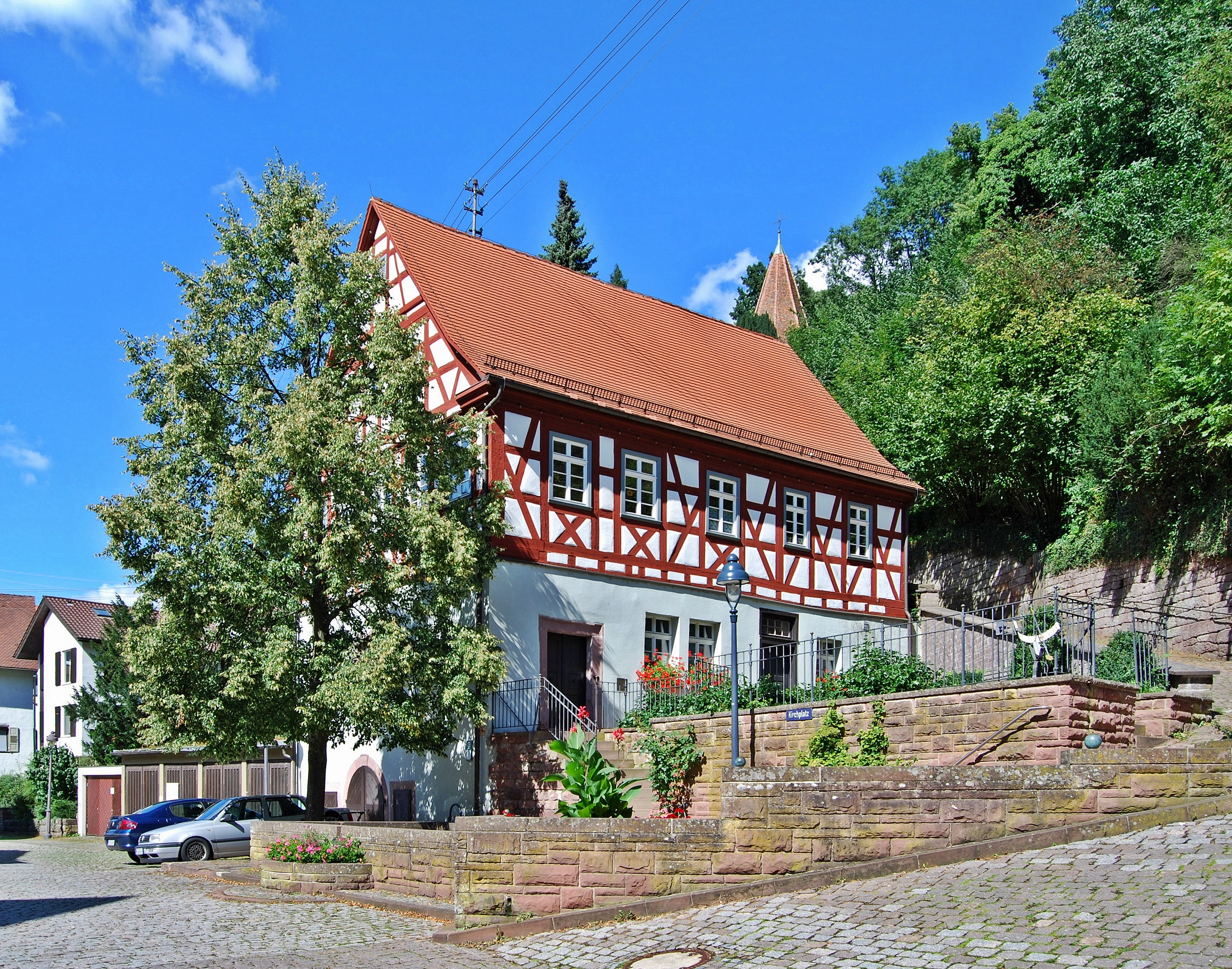 Church square of Neuenbürg, Baden-Württemberg.